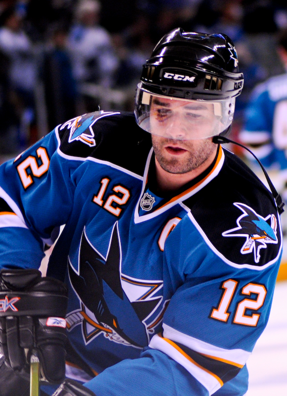 Patrick Marleau